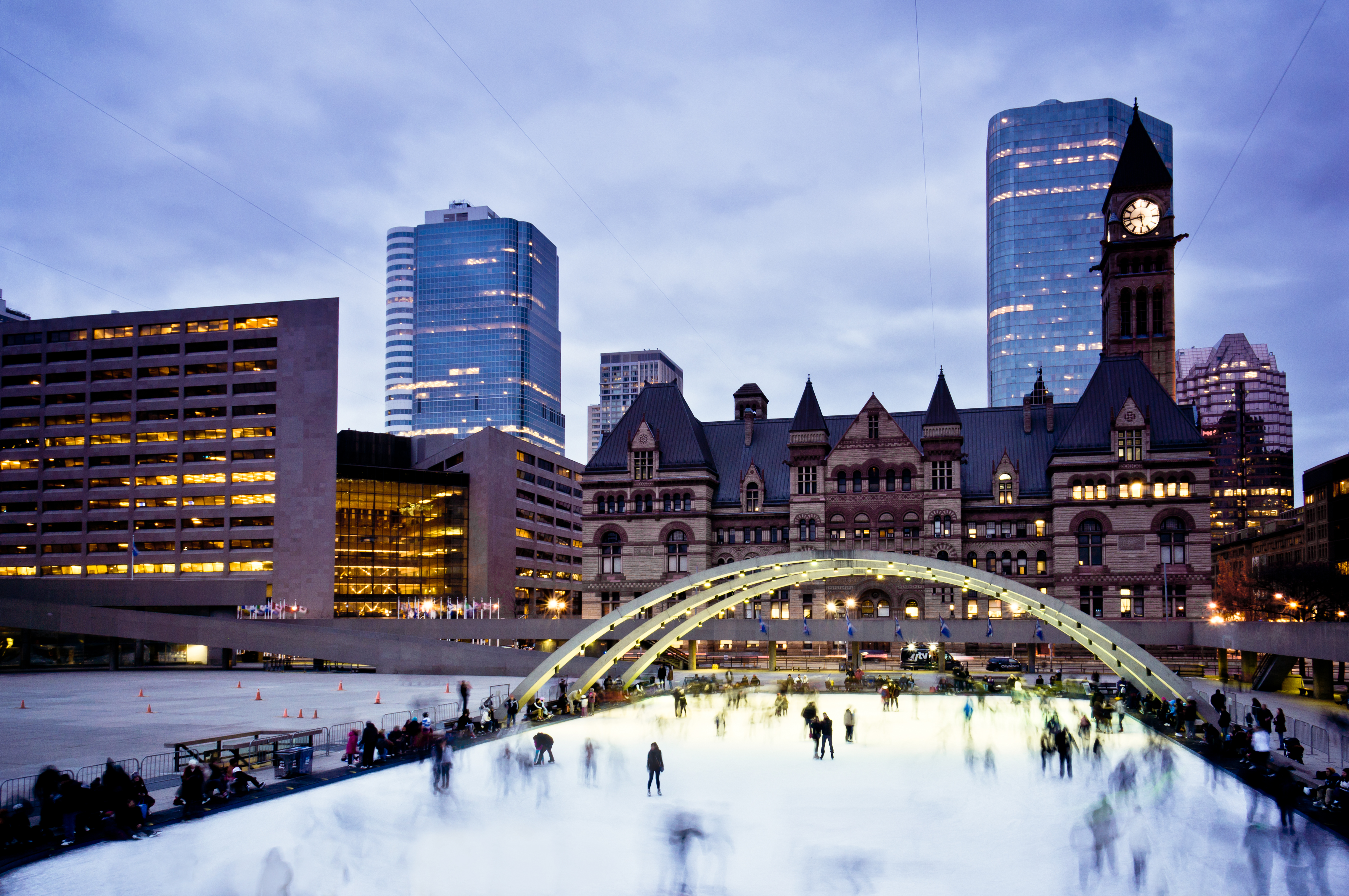 Skaters at the ice rink at Nathan Philips Square They finally finished renovating the building that housed the skate rentals and washrooms beside the skating rink; they also added a deck that overlooks the rink (where I took this picture). I did not have a tripod with me so I tried to carefully balance my camera on top on my phone which was on top of my bag which was on top of a ledge. I did not want to let go of the camera in fear of it falling over the ledge so I had to hold it and keep it still for the entire 4 second exposure. I even tried to hold my breath.... longest and most awkward 4 seconds ever! Toronto, Ontario